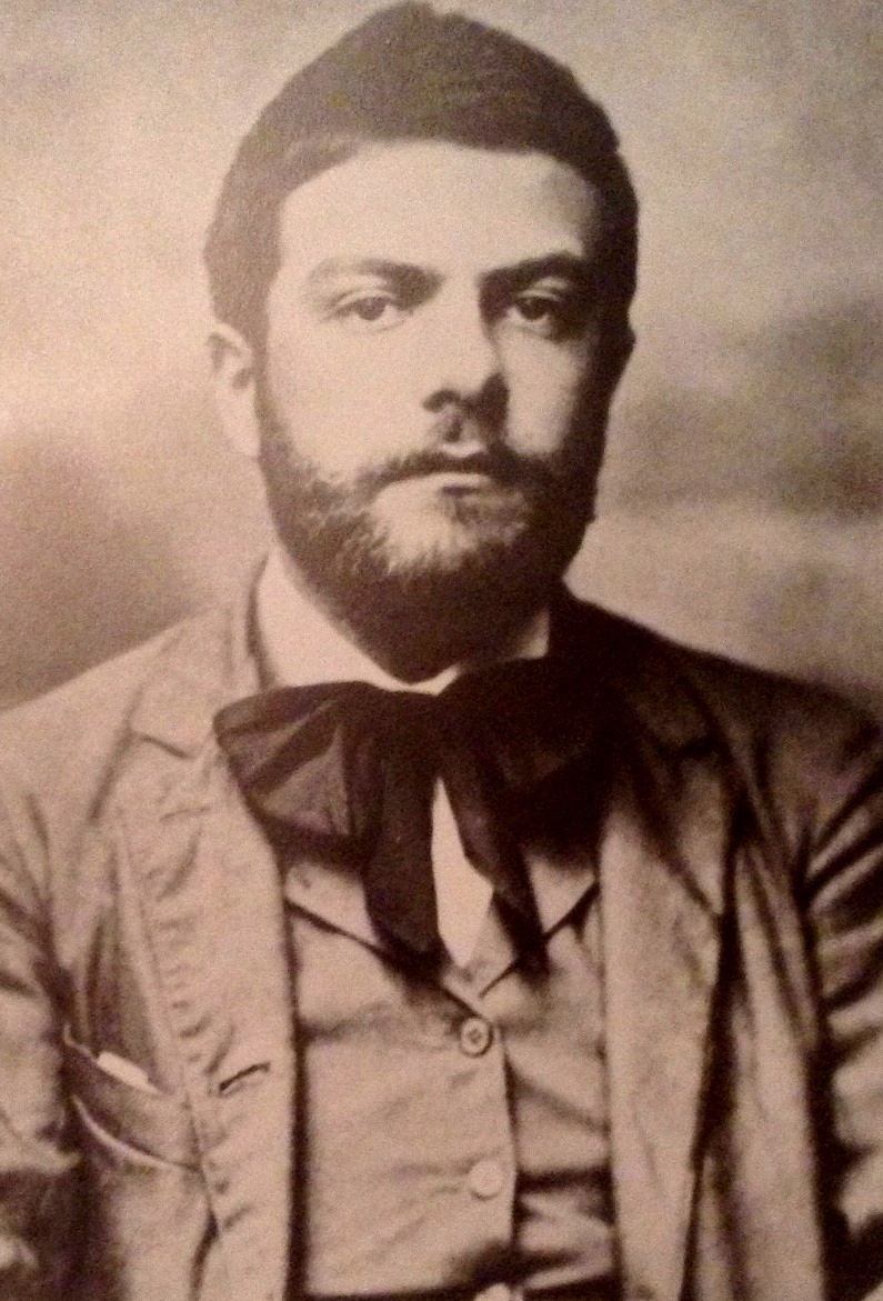 cabinet card photo of Otto Mahler, younger brother of the composer Gustav Mahler, probably taken between 1891 and 1893